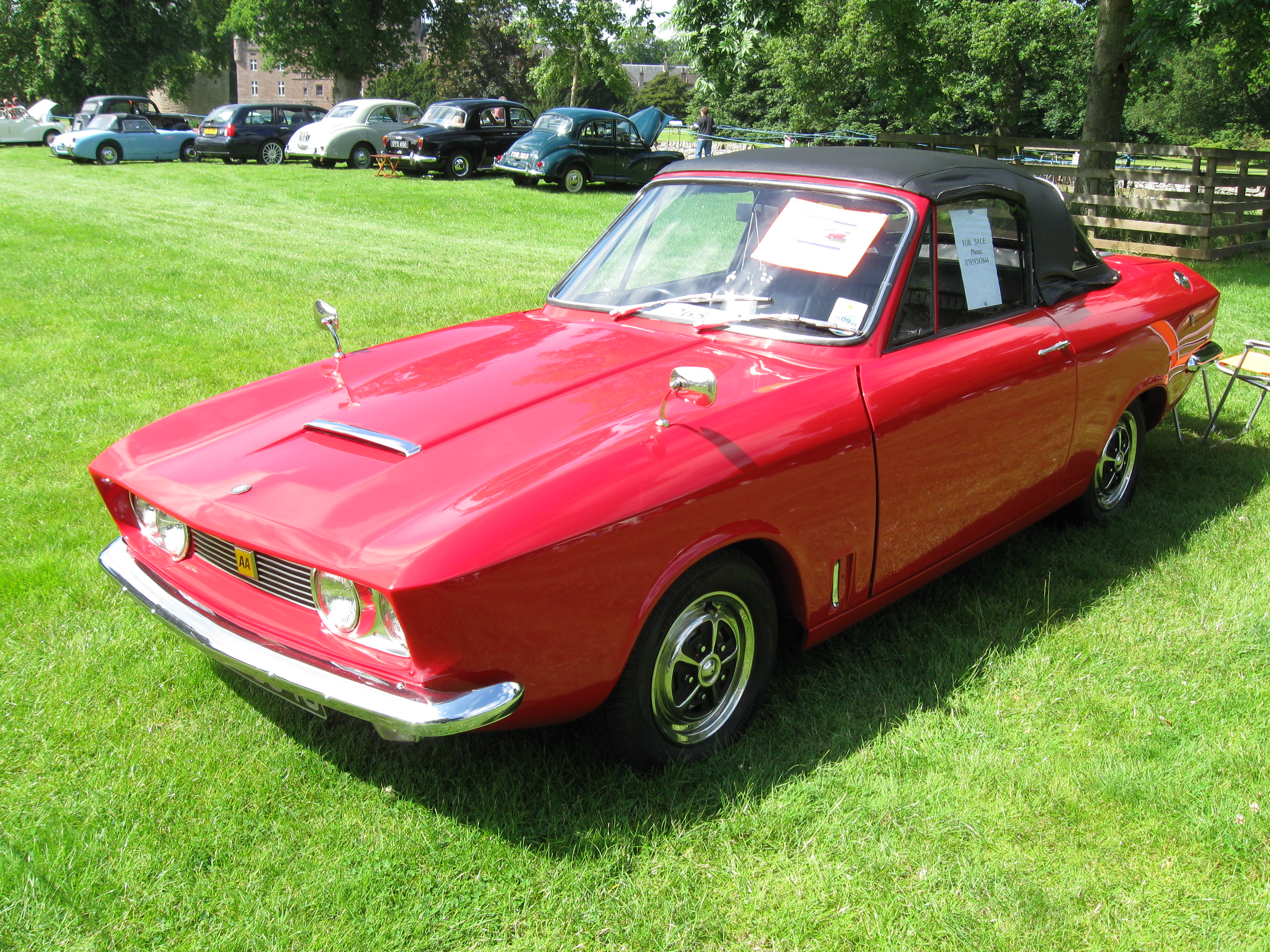 Bond Equipe 2-Litre convertible at SVVC Extravaganza, Glamis Castle, 2009.